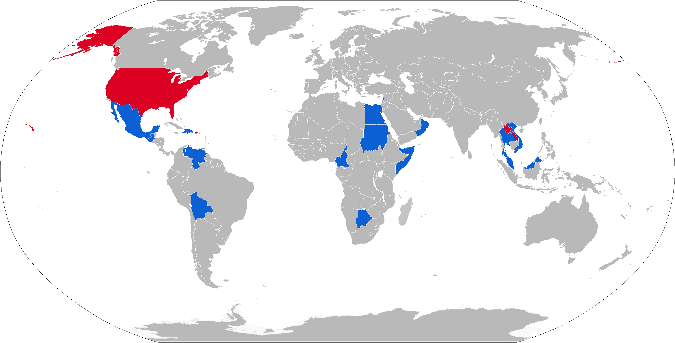 Map of V-100 Commando operators in blue